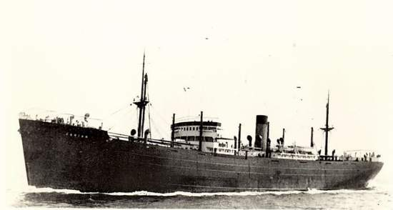 UAC steamship SS Zarian (built 1937). Sunk by torpedo 29 Dec 1942